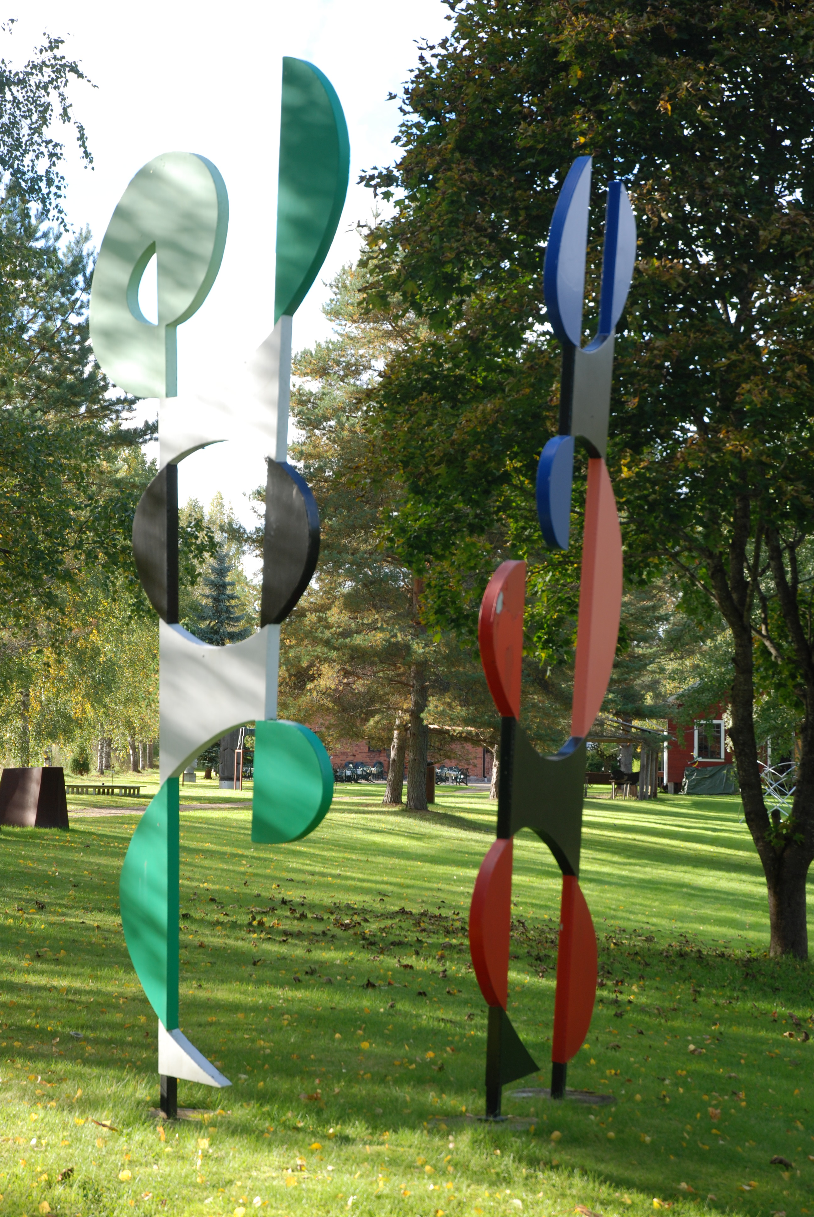 Pierre Olofsson´s Dud, steel, 1991 , Galleri Astley, Sweden